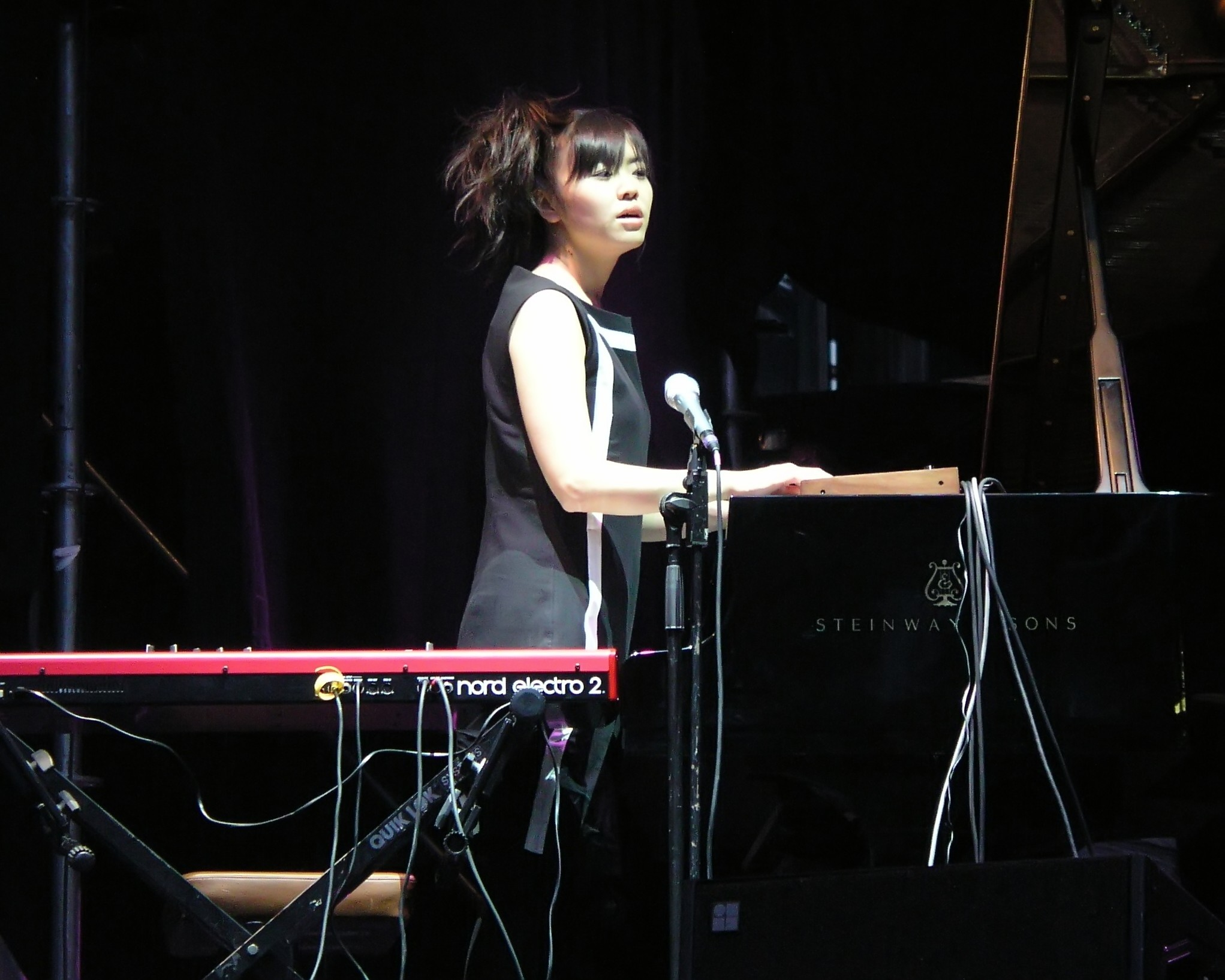 Hiromi standing by the pianoHiromi Uehara